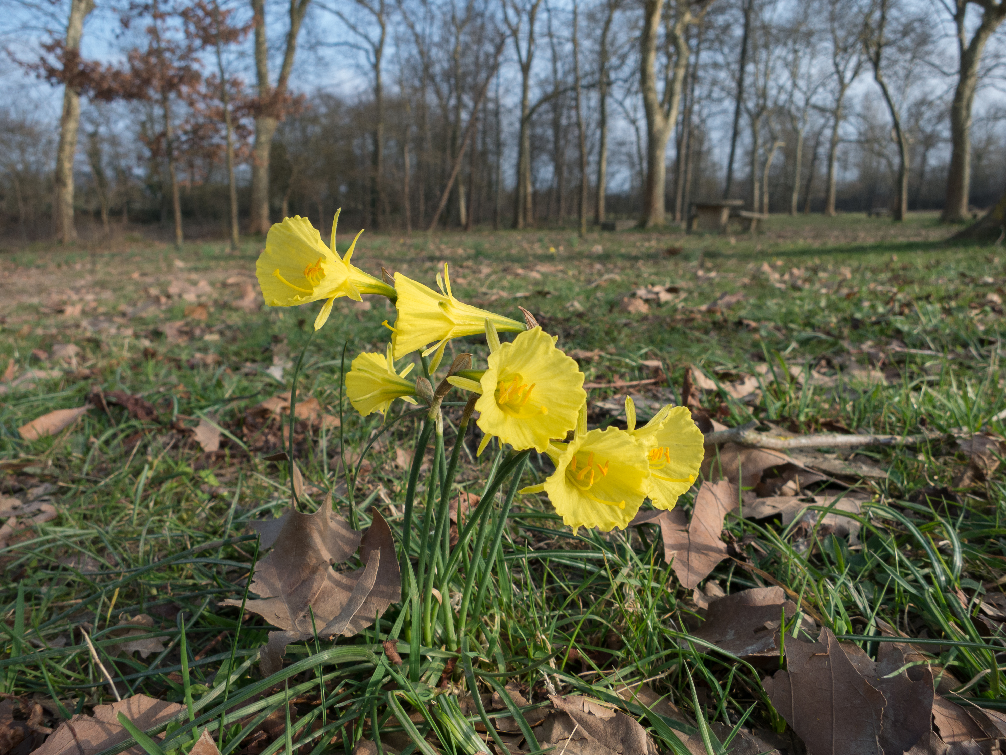 Wild growing hoop petticoat daffodils (Narcissus bulbocodium subsp. citrinus) at the beginning of march in the Olárizu park in Vitoria-Gasteiz, Álava, Basque Country, Spain